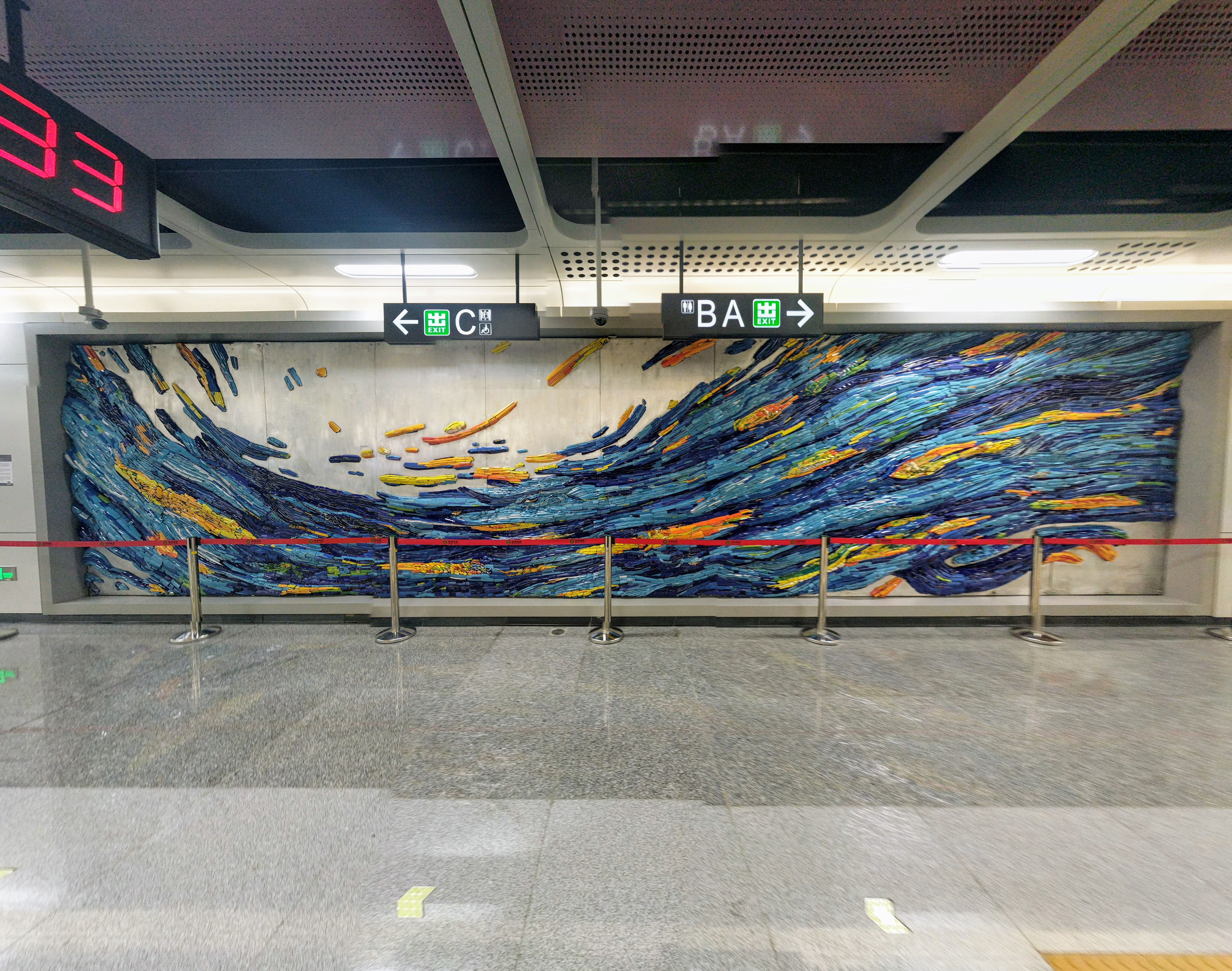 SZMC Line5 Liwan Station Artwork the Rhapsody of the Sea